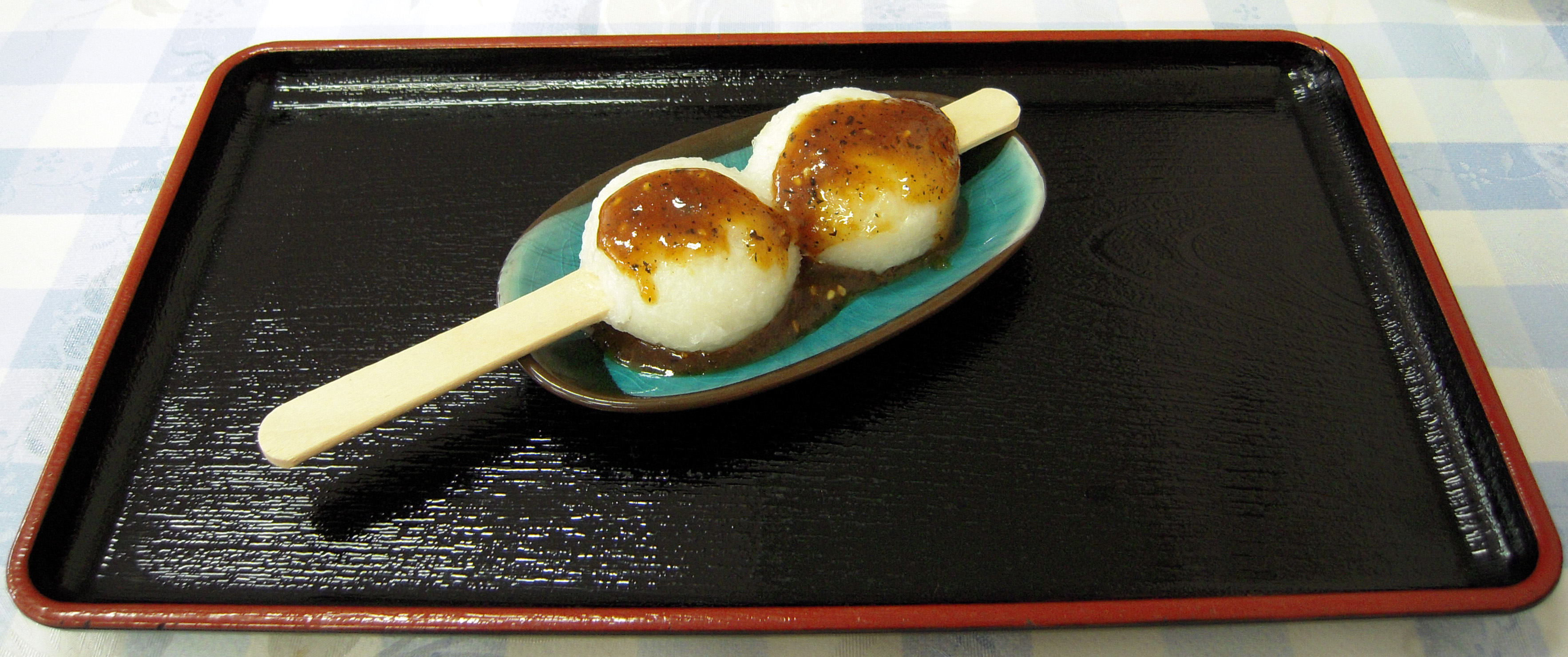 Gohei-mochi